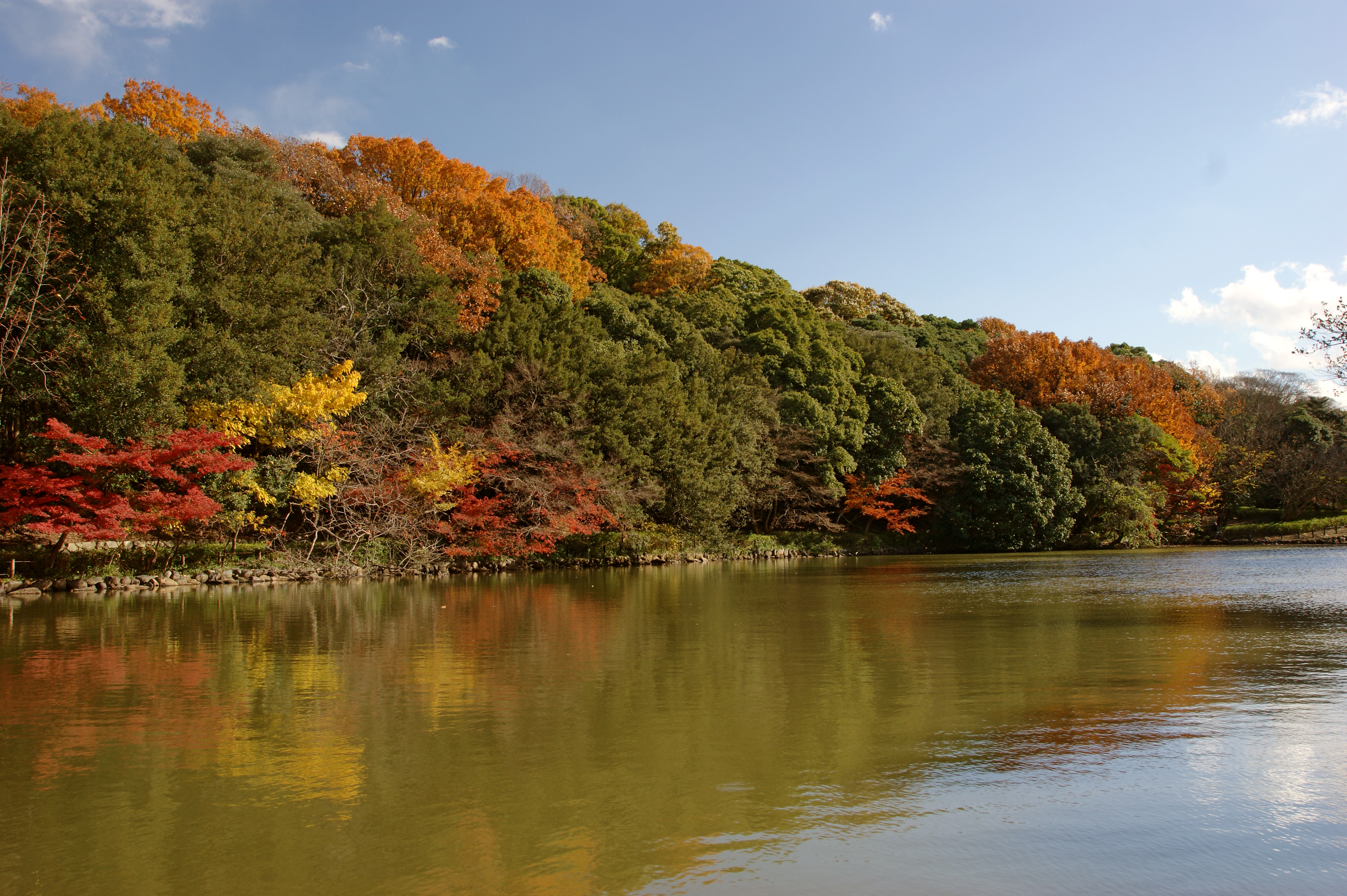 Akashi Castle (Akashi Park), Akashi, Hyogo prefecture, Japan